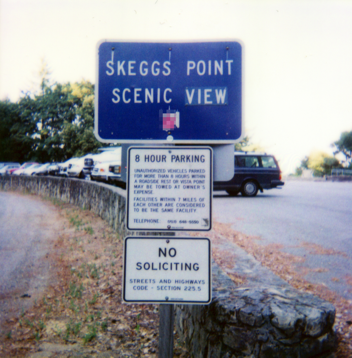 Photo by David Jordan. Please credit the photographer when using this image. SR35 at Skeggs Point, CA.